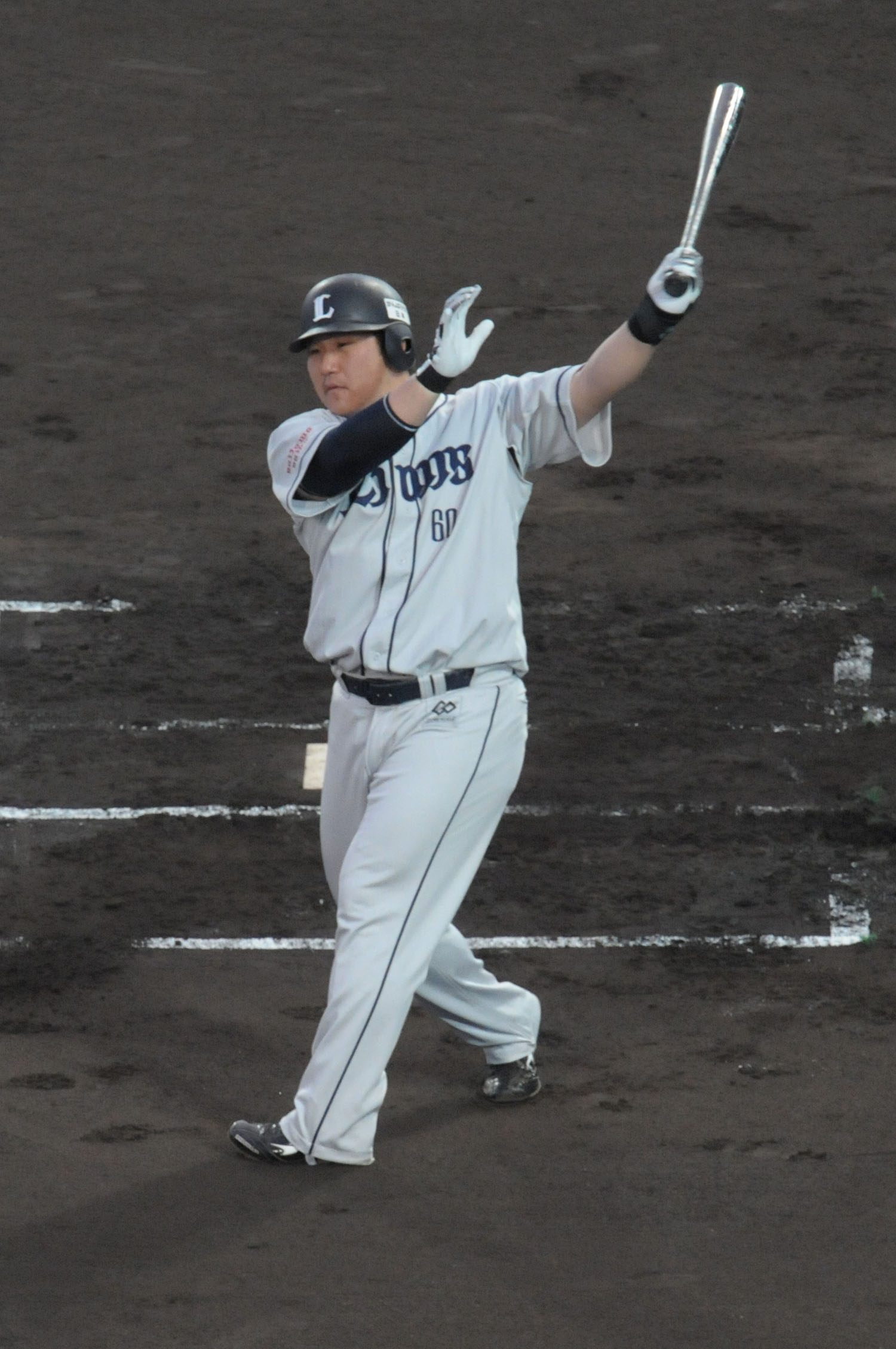 Takeya Nakamura, infielder of the Saitama Seibu Lions, at Akita Prefectural Baseball Stadium.